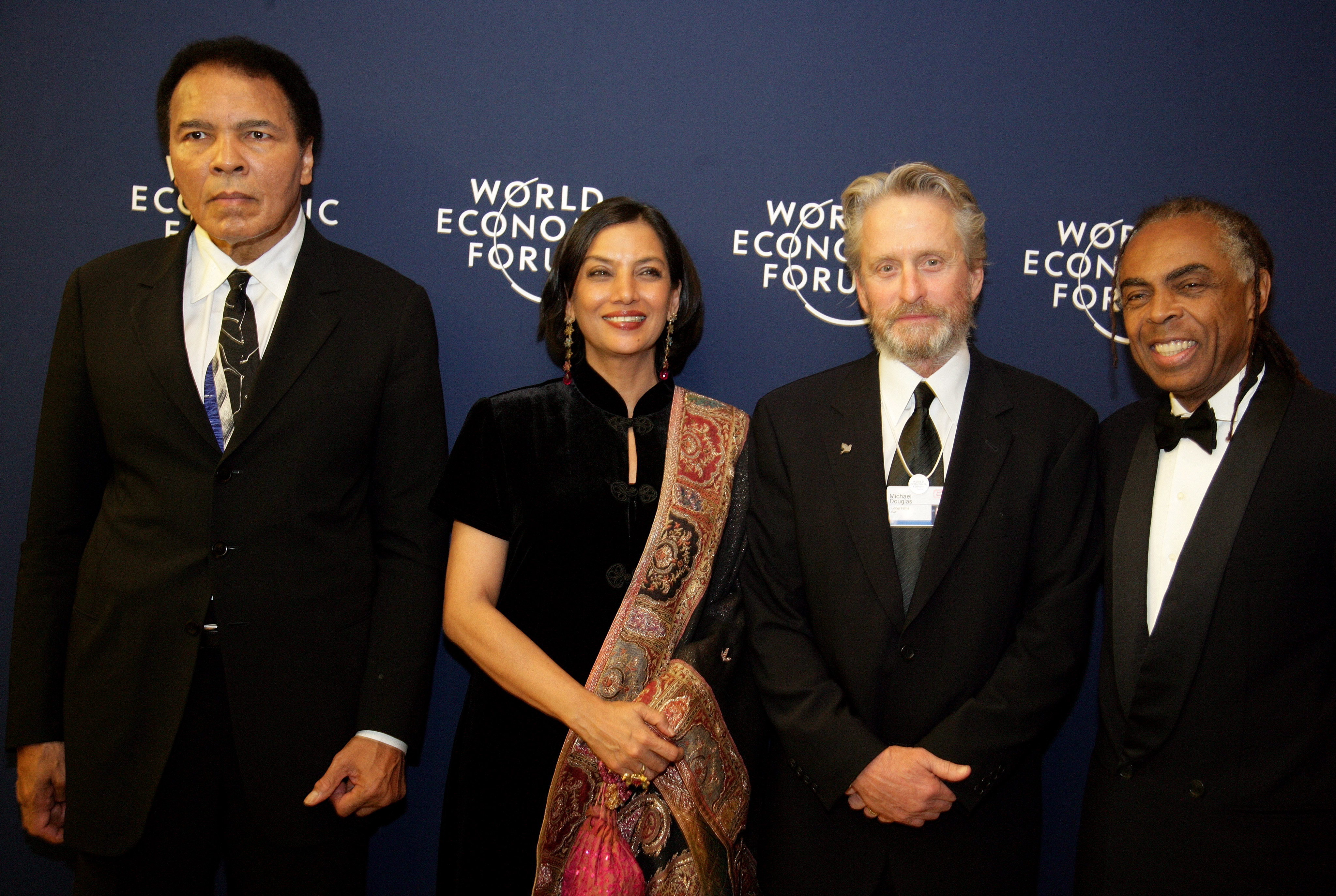 DAVOS/SWITZERLAND, 28JAN06 - FLTR: Muhammad Ali, Former Heavyweight-Boxing Champion, Greatest of All Time (GOAT), USA, captured at the Presentation of the Crystal Awards at the Annual Meeting 2006 of the World Economic Forum in Davos, Switzerland, January 28, 2006. Copyright by World Economic Forum by Andy Mettler